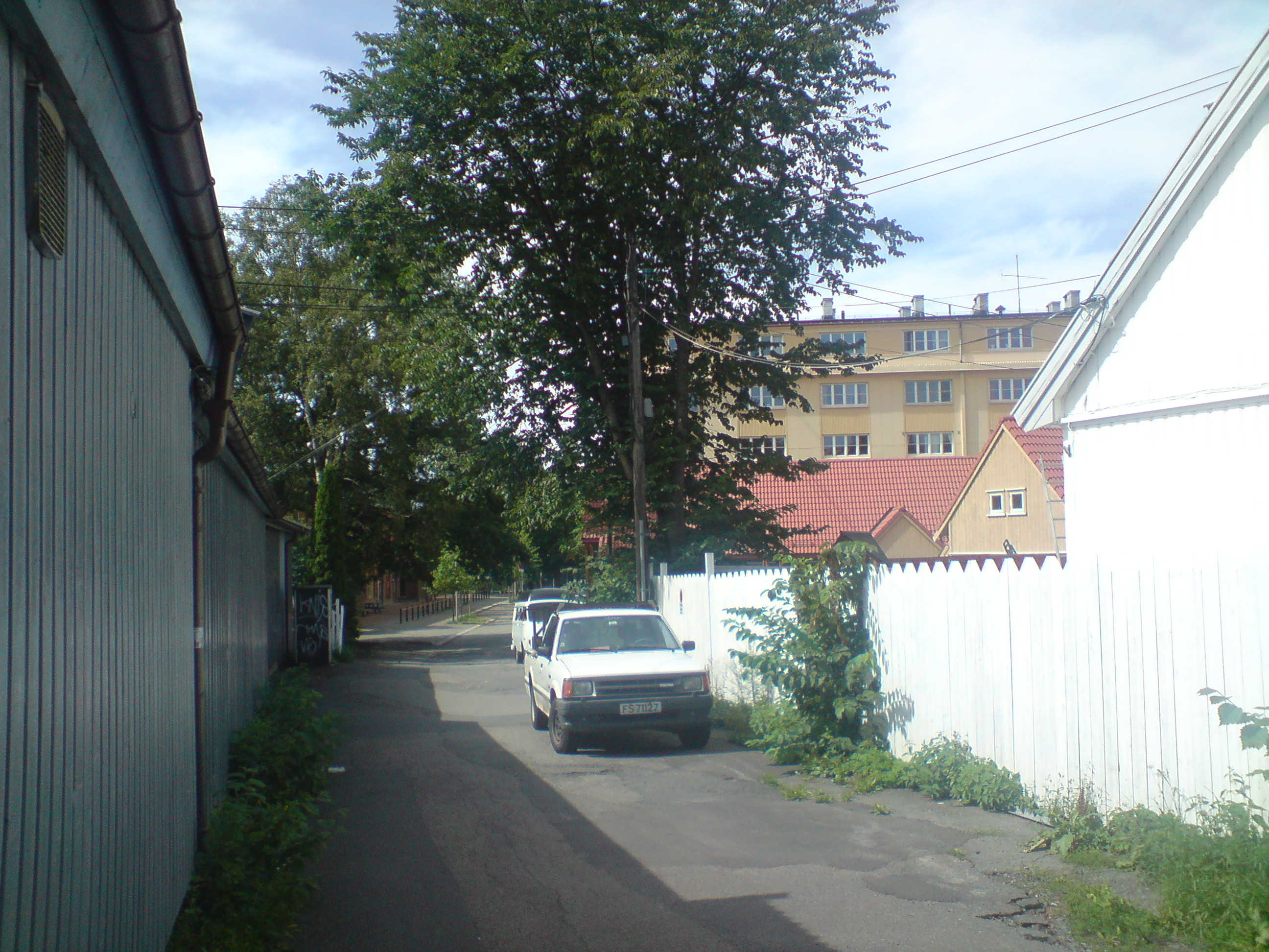 Fridtjovsgate in Oslo